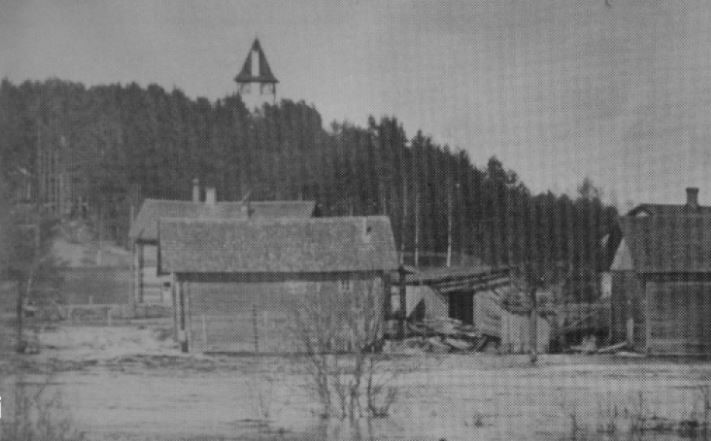 The tower of Villa Havulinna in the village of Noormarkku, Finland.